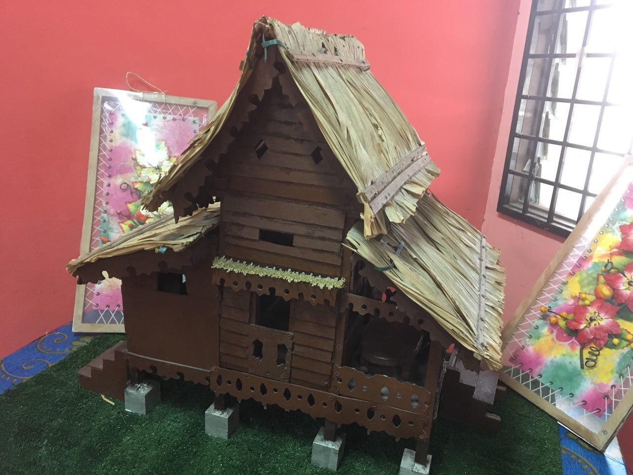 Rumah Warisan1